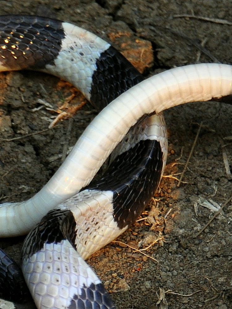 Blue krait (Bungarus candidus), ca. 70cm TL, from Karawang, West Java. Showing the all-white ventral scales, and dorsal with vertebral scales.